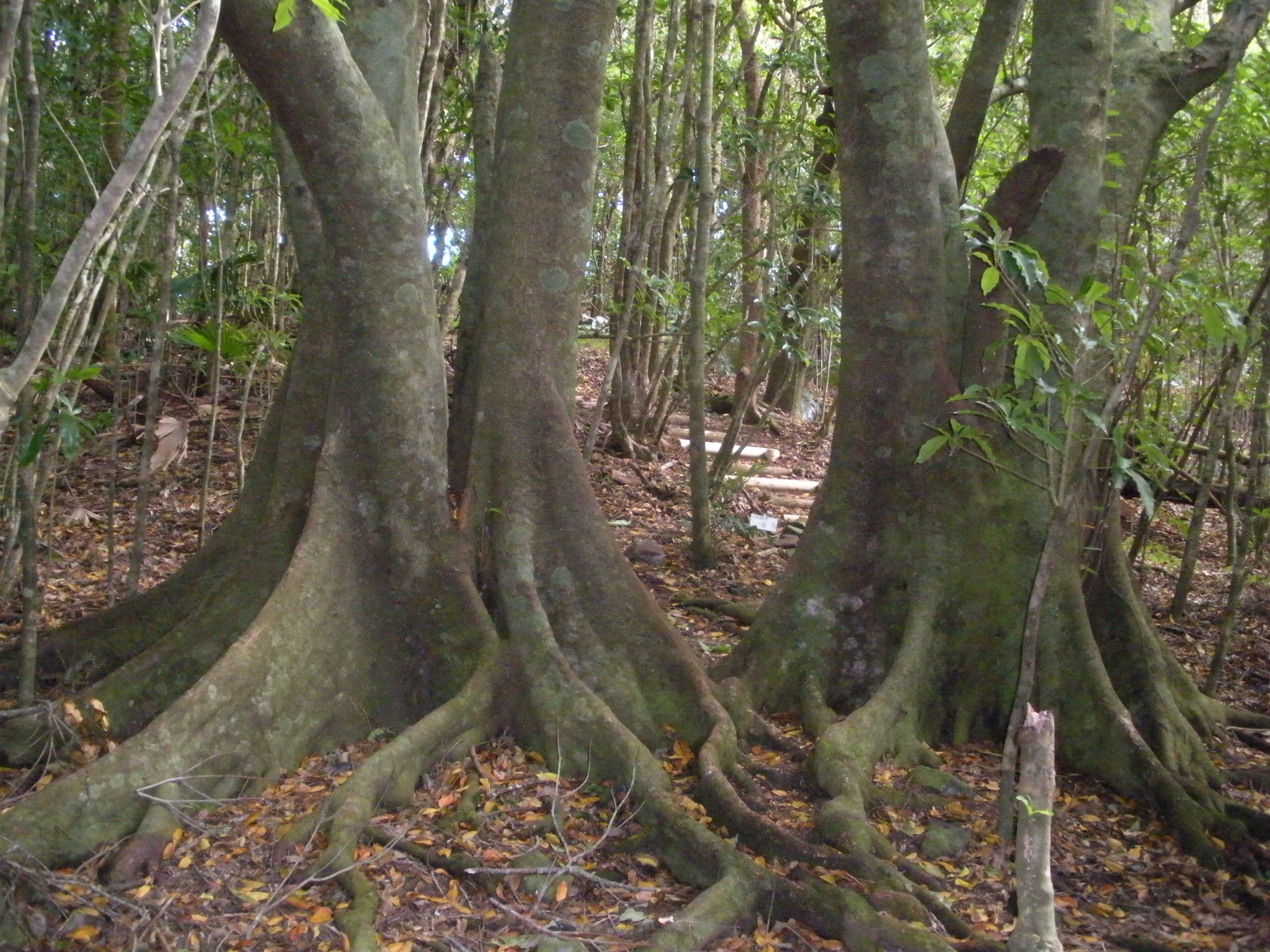 Elaeocarpus sylvestris in Japan Bonin Islands Hahajima Island